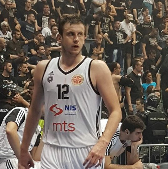 Velickovic in Partizan 2016